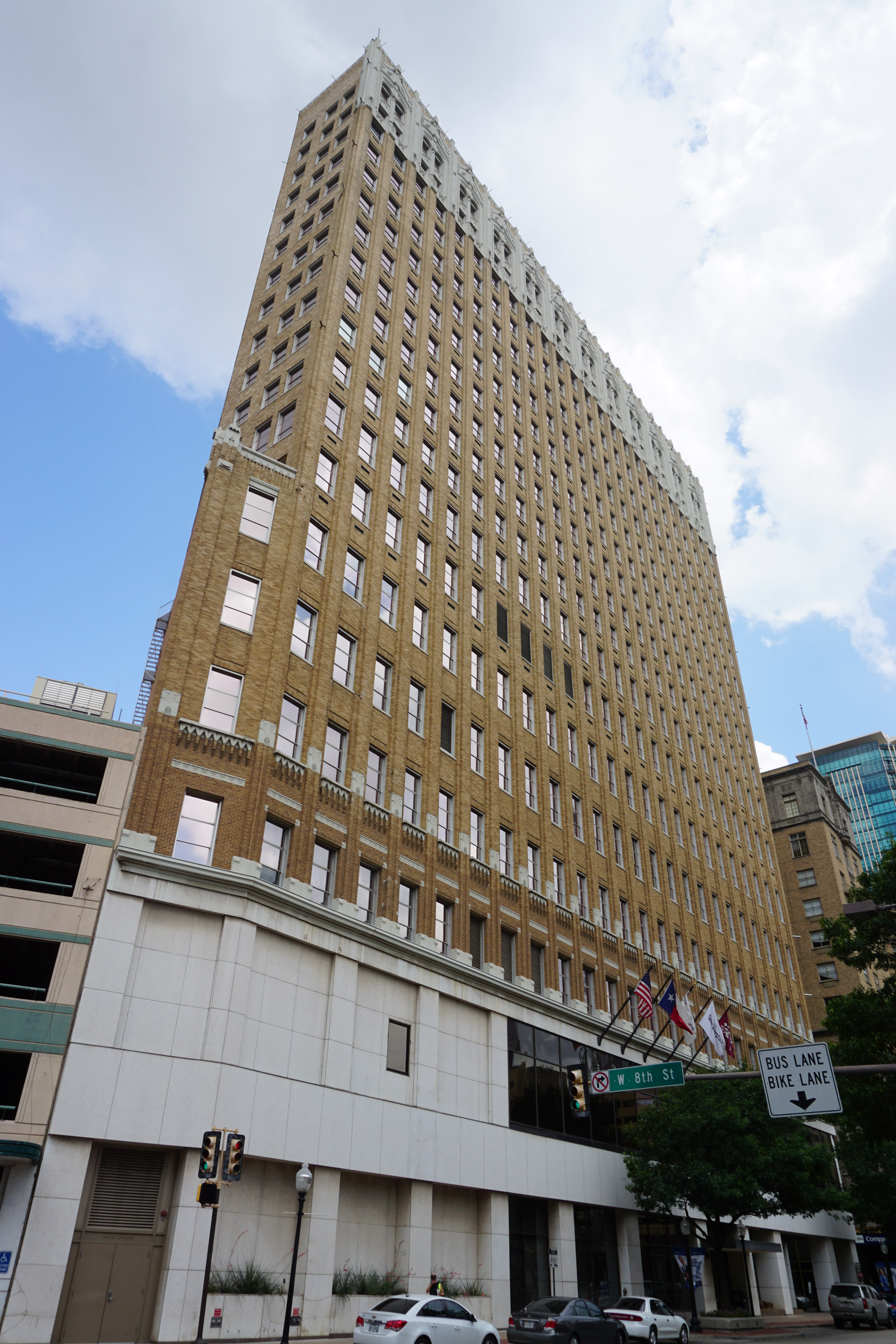 The Star-Telegram Building in Fort Worth, Texas (United States).